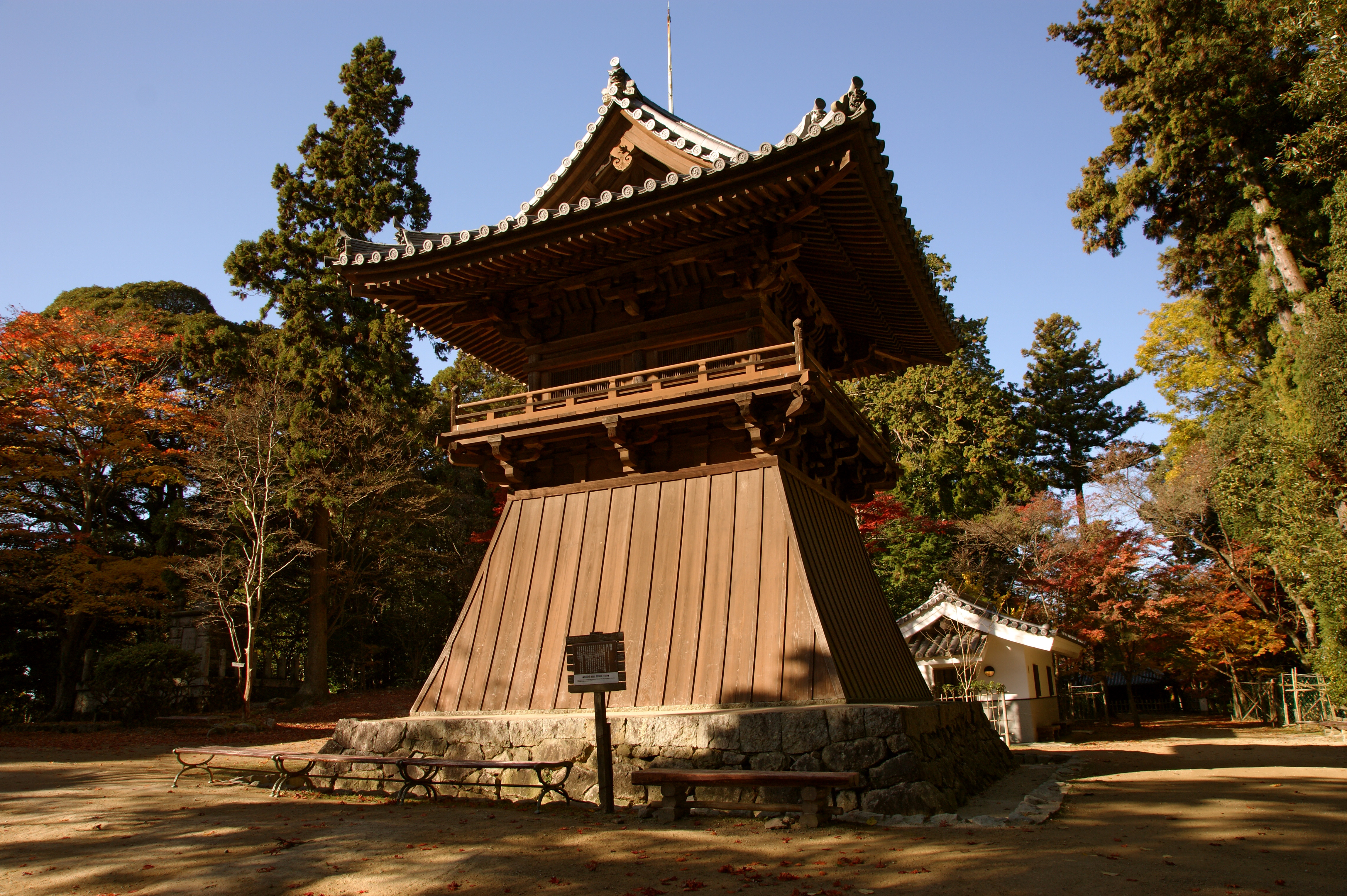 Engyoji, Himeji, Hyogo prefecture, Japan